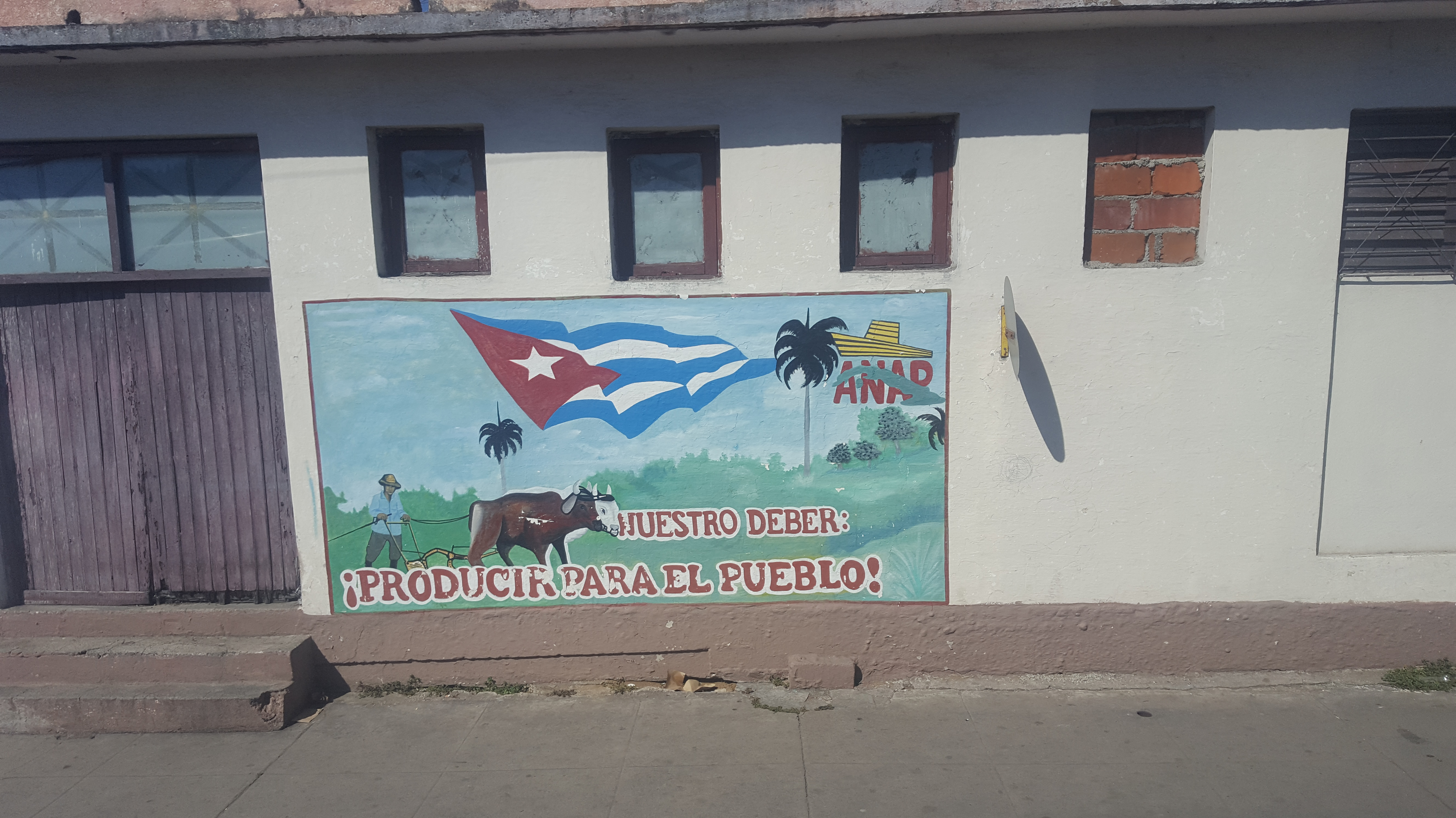 A painted advertisement for ANAP, the National Association of Small Farmers, in Cienfuegos, Cuba. It says: "Our duty: Produce for the people!"